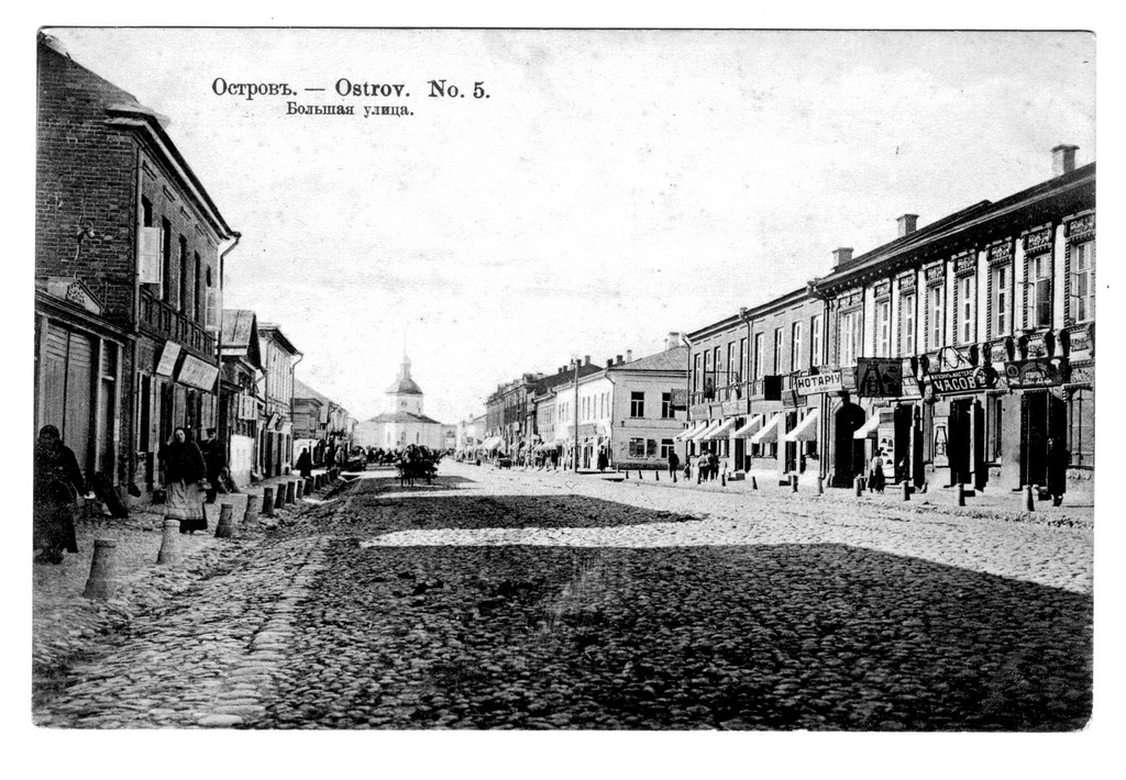 Pre-1917 Poscard of Ostrov, Russia